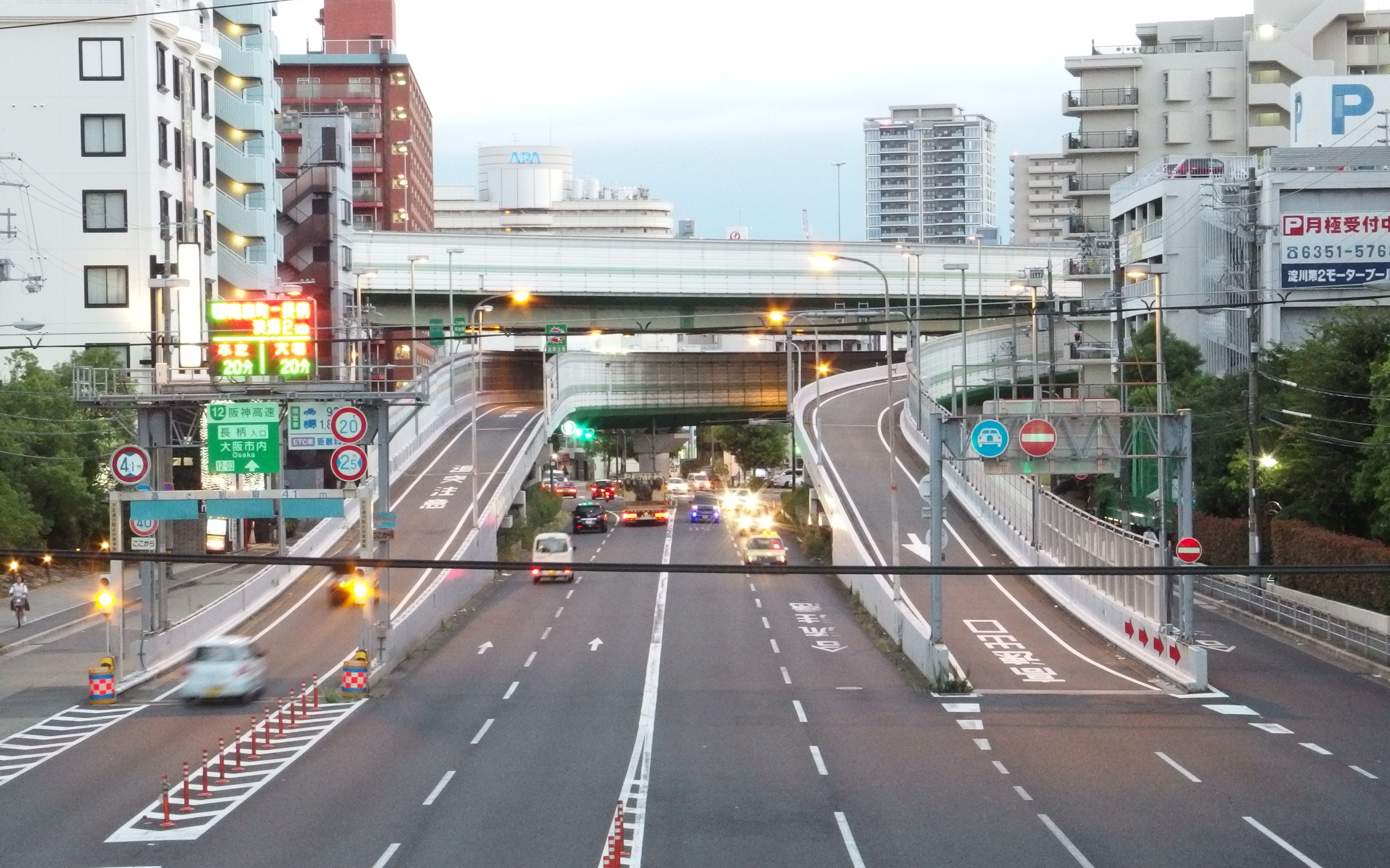 Hanshin Expressway Nagara ramp in Osaka, Osaka Prefecture, Japan